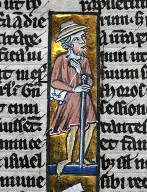 Elimelech, miniature from the Bible of the Monastery of Santa Maria de Alcobaça, c. 1220s (National Library of Portugal ALC.455, fl.79v).